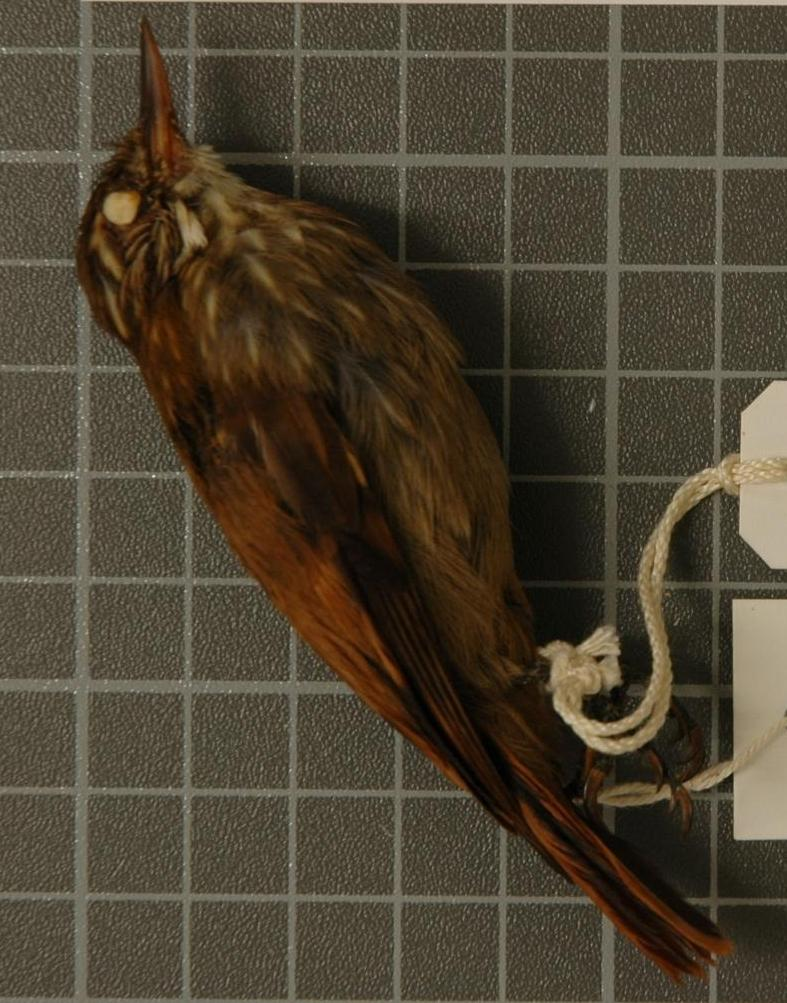 Xenops tenuirostris hellmayri Todd, 1925